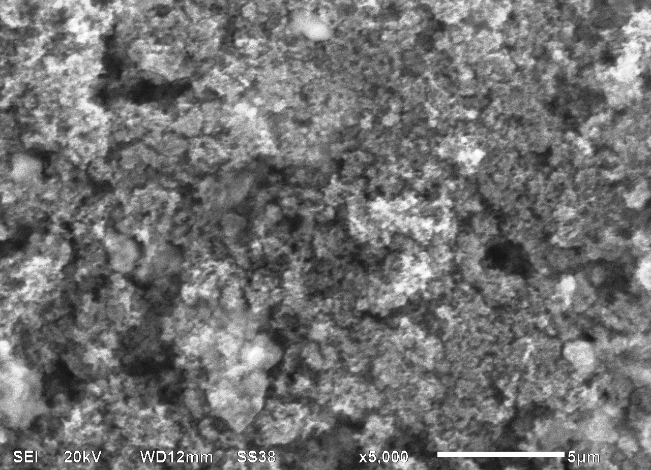 Micro-image of soot formed during operation of automobile engines. The micro material is obtained from a car catalyst. A very high agglomeration of submicron-sized particles is visible. Scanning electron microscopy, magnification 5000X.